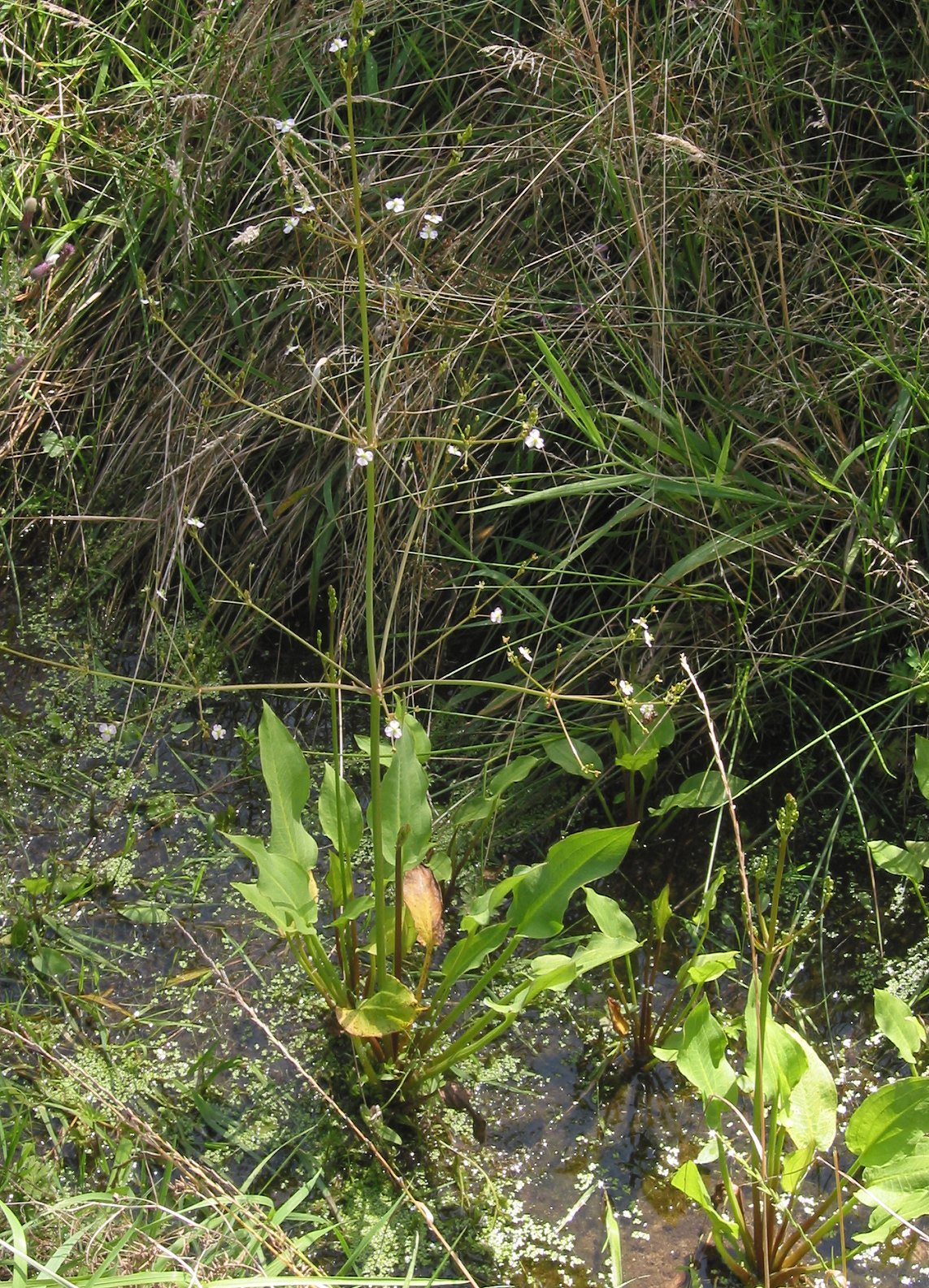 (nl: Grote waterweegbree) Alisma plantago-aquatica